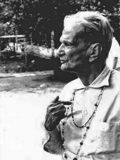 Zélio Fernandino de Moraes (10 April 1891– 3 October 1975) was a Brazilian medium who is considered the founder of the Umbanda Branca religion